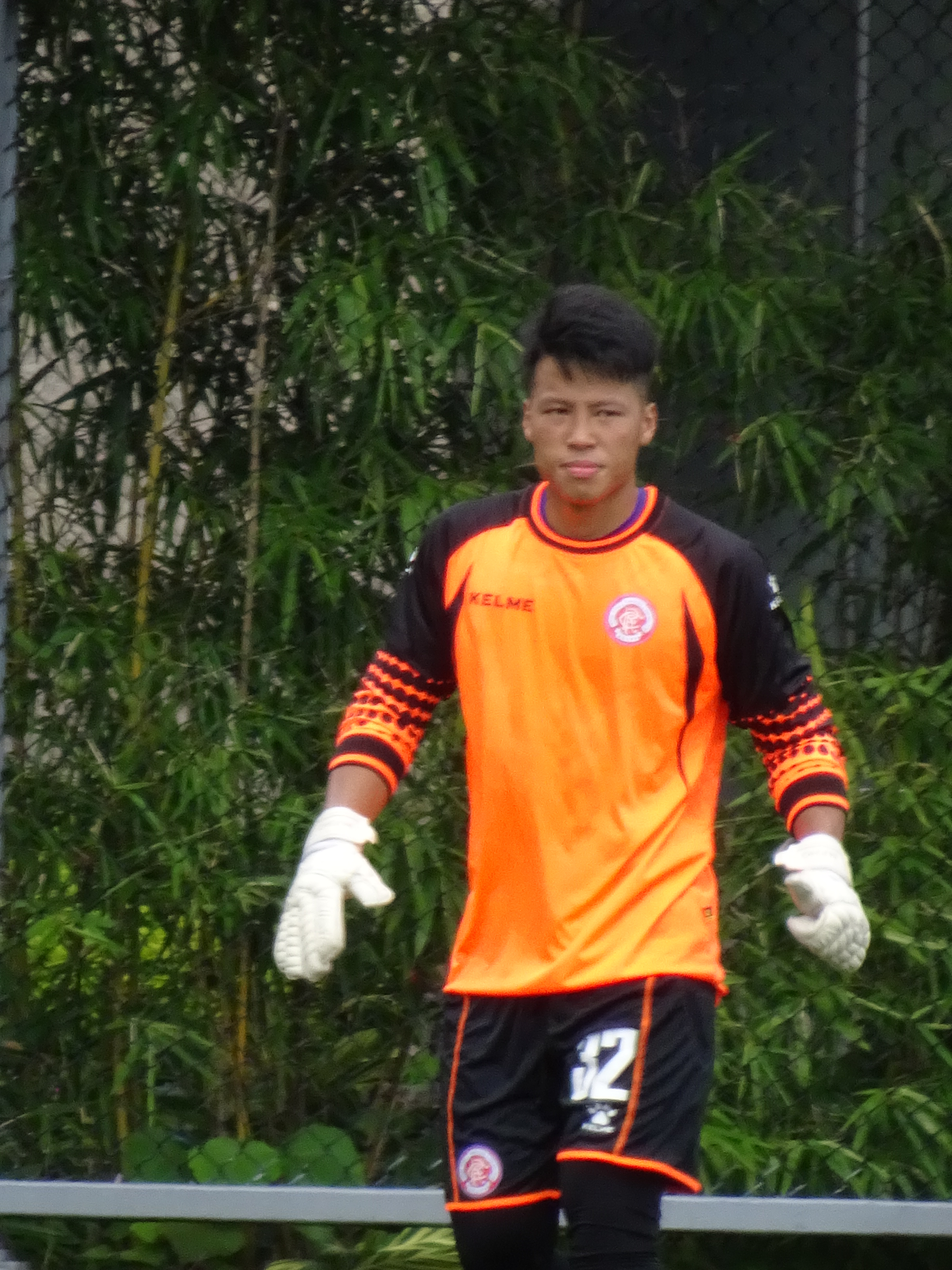 Ho Man Fai (8 Aug 2017, Friendly match, Rangers vs All Black FC, Kowloon Bay Park) 中文（香港）: 何文輝 (8 Aug 2017, 友賽, 流浪 vs All Black FC, 九龍灣公園)